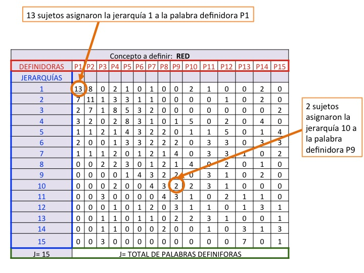 Jerarquización de la técnica de Redes Semánticas Naturales